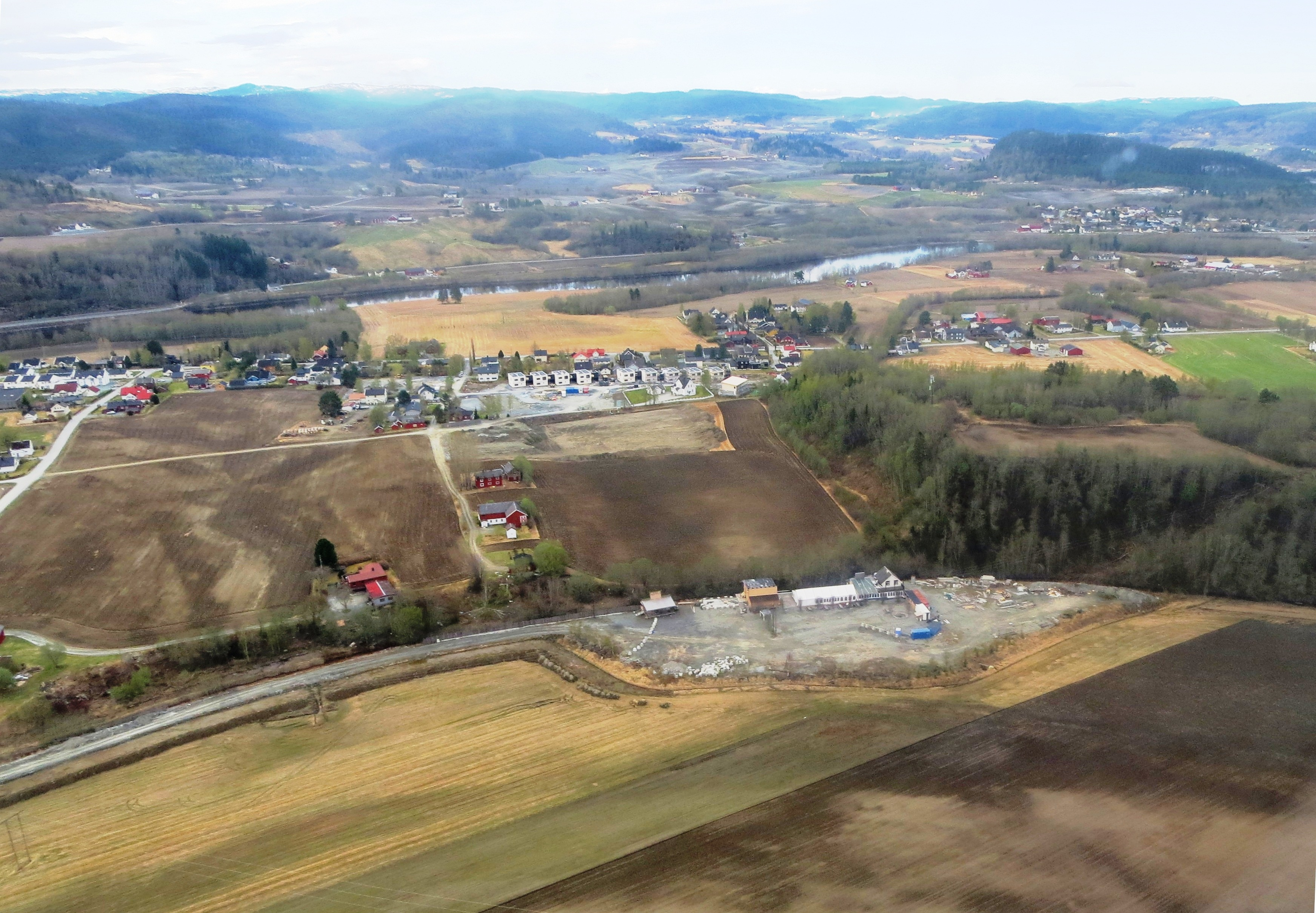 Aerial view over the southern shore of the Stjørdalselva river, in the municipality of Stjørdal - Nord-Trøndelag, Norway